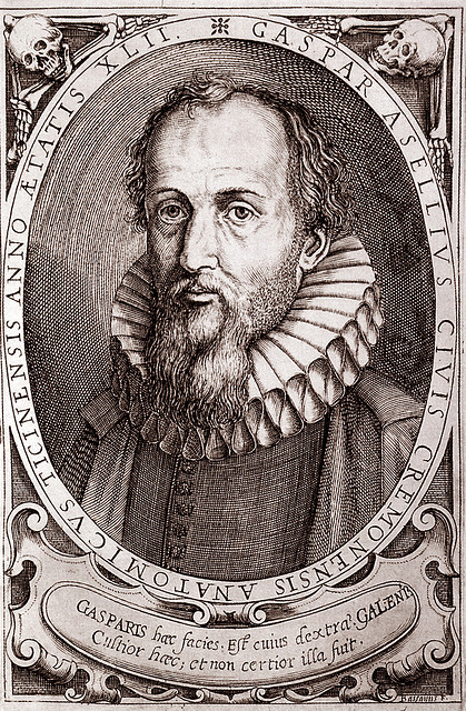 Portrait of Gaspare Aselli (c.1581–1626), Italian physician.